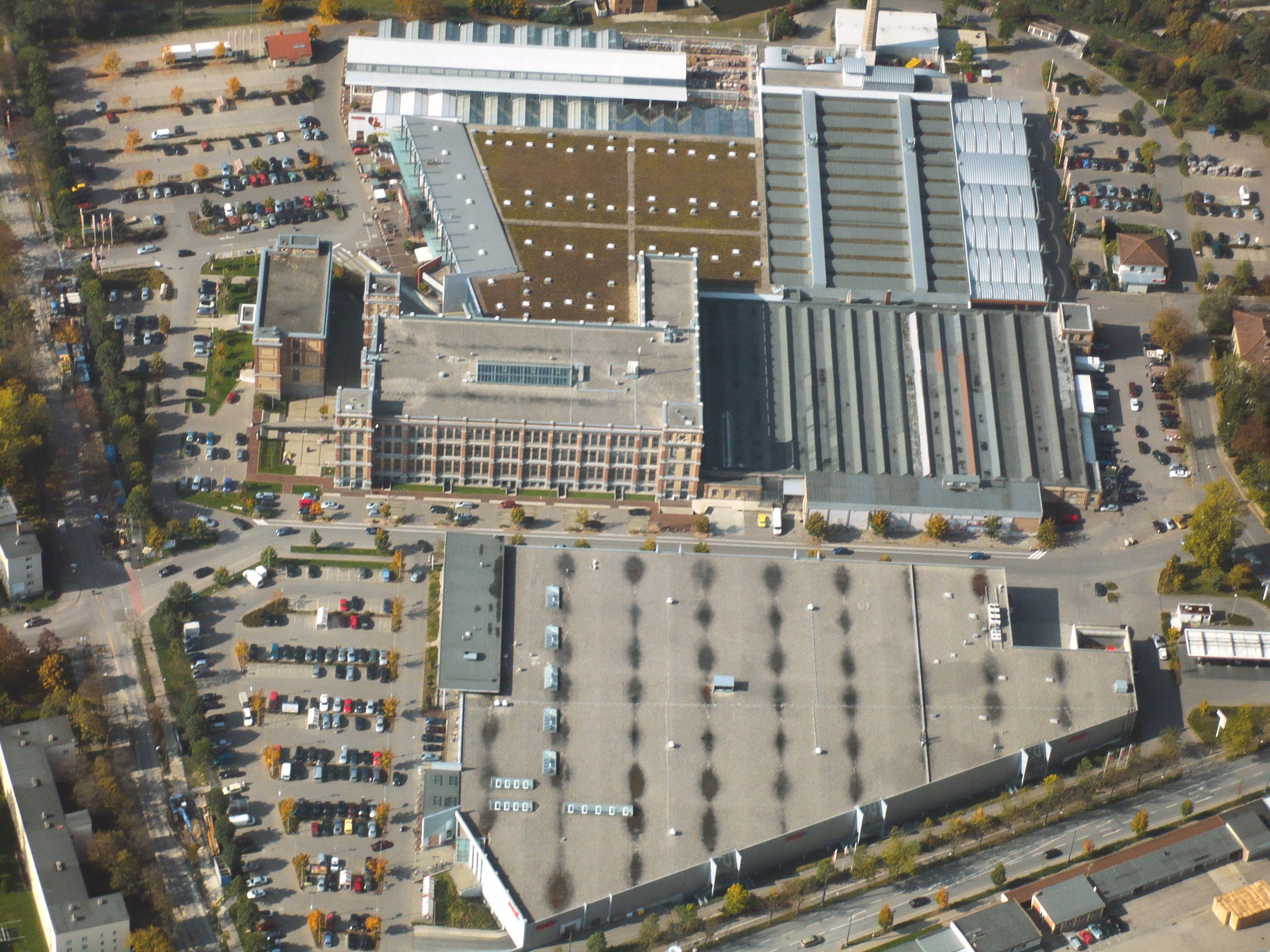 Aerial photograph of the "Fabrikschloss" in Augsburg